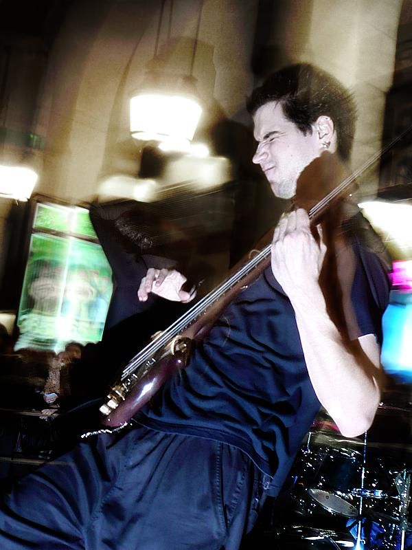 Roscon Rock'09, Zaragoza. Shots in the street while playing live. Flash hand shoted.